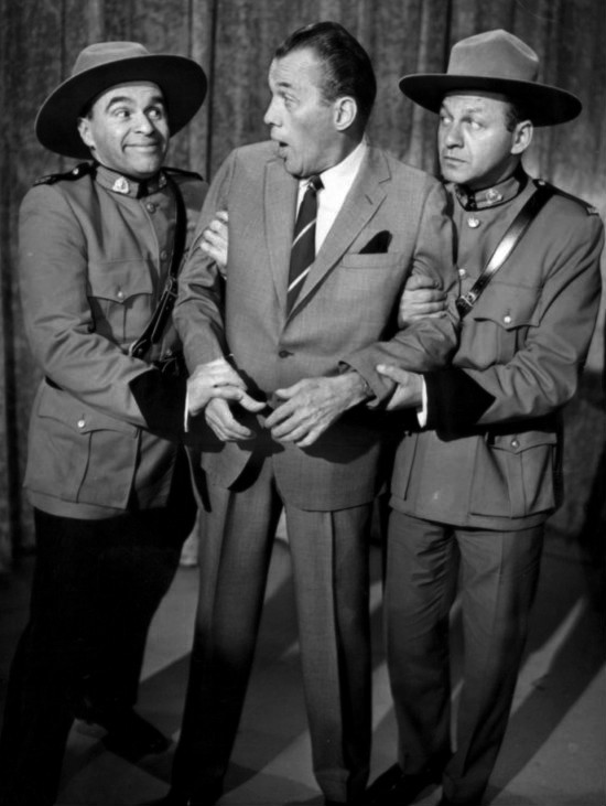 Publicity photo of the comedy team of Wayne and Shuster with MC Ed Sullivan on The Ed Sullivan Show.